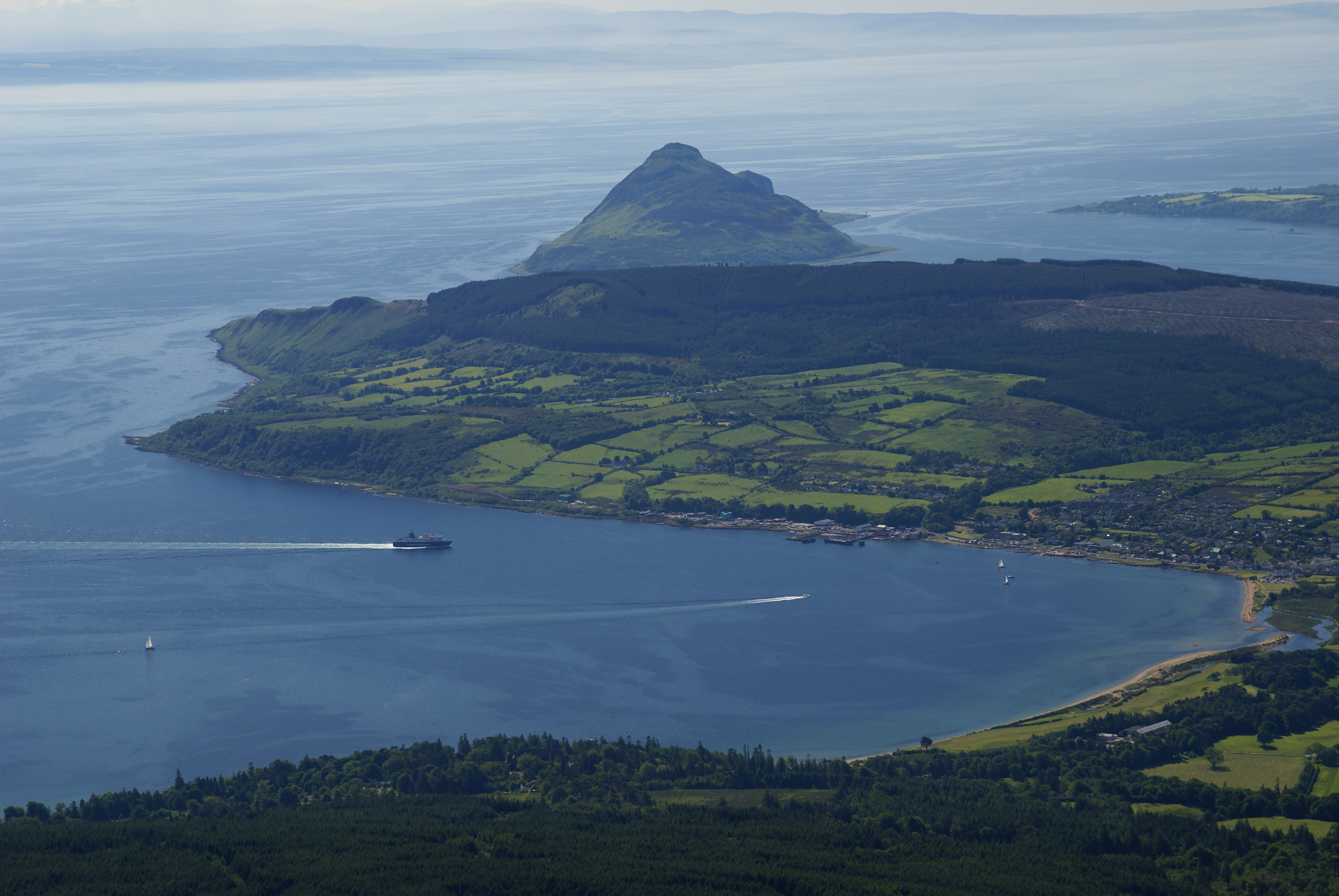 Caledonian MacBrayne ferry MV Caledonian Isles, approaching Brodick Pier.